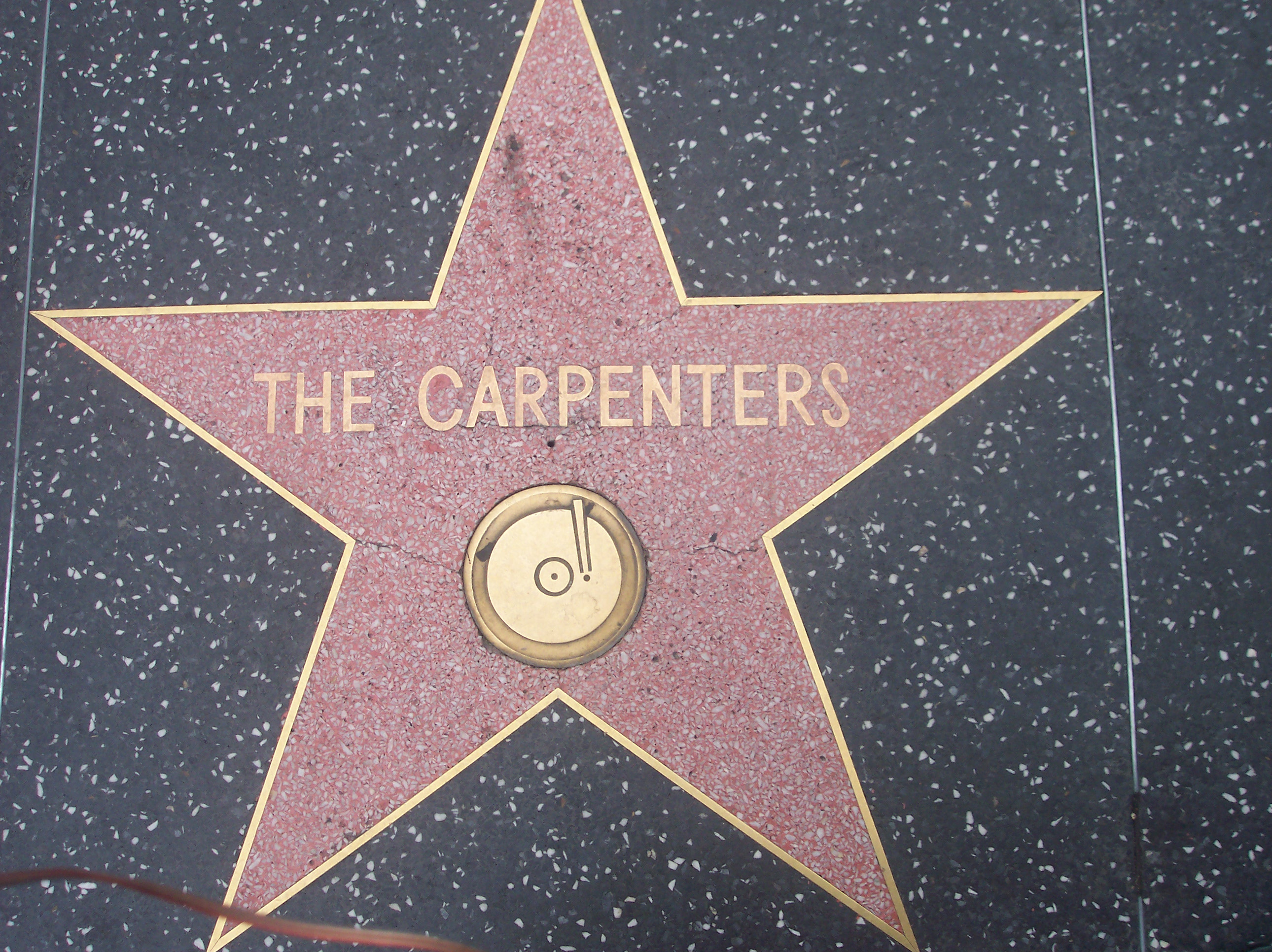 I took this picture of The Carpenters' Hollywood Walk of Fame Star.